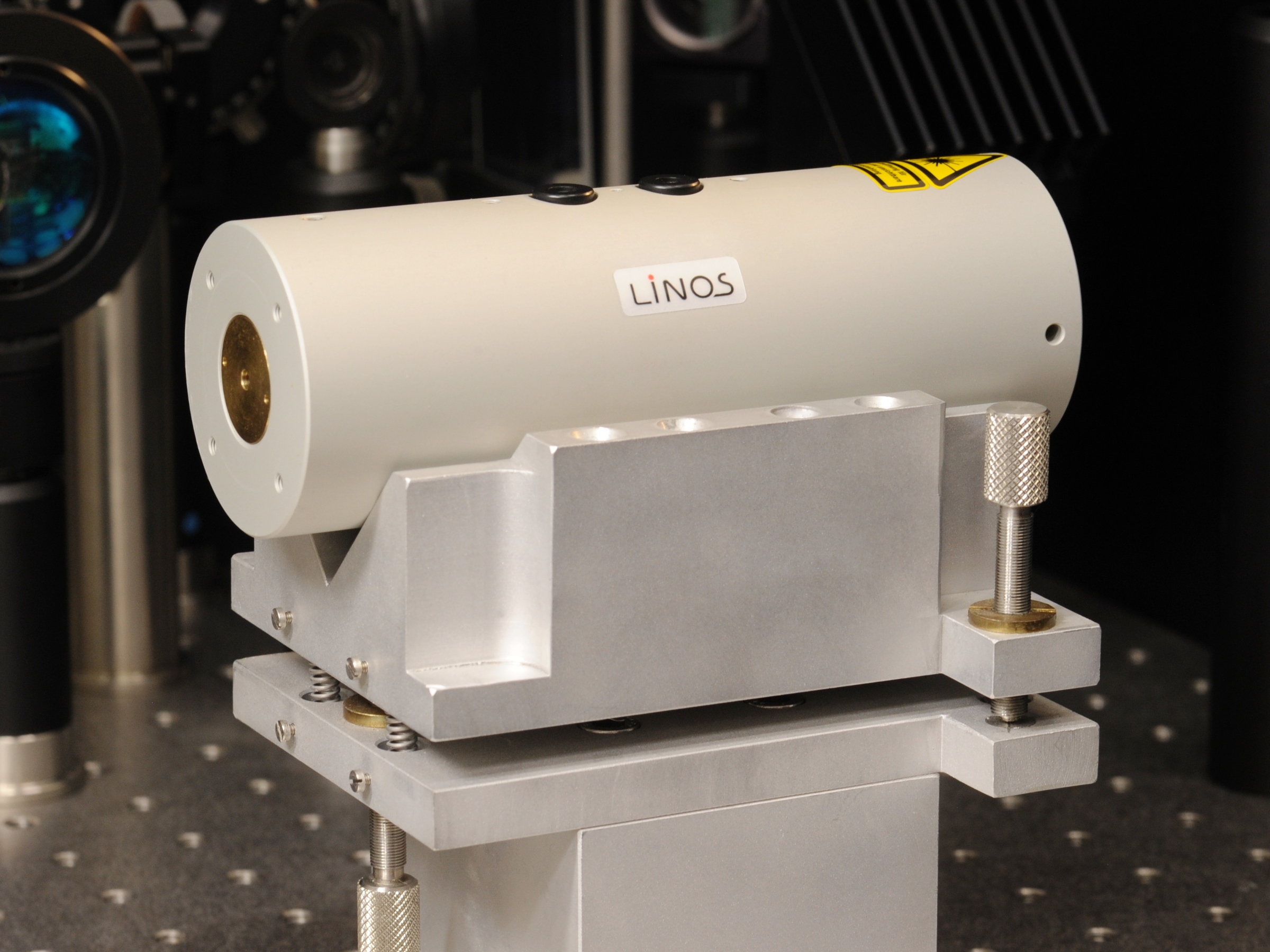 Photograph of a Electro-optic modulator from linos, which is basically a variable waveplate. The round cylinder contains four optical crystals that change their optical birefringence according to an applied high voltage electric field. This allows to modulate the phase of a transmitted optical beam and quickly change its polarization.